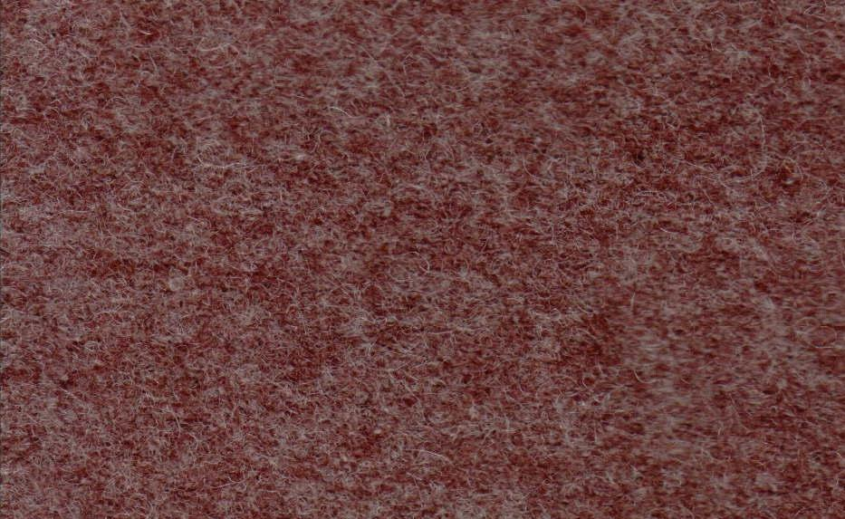 "TRICKY" Lambert